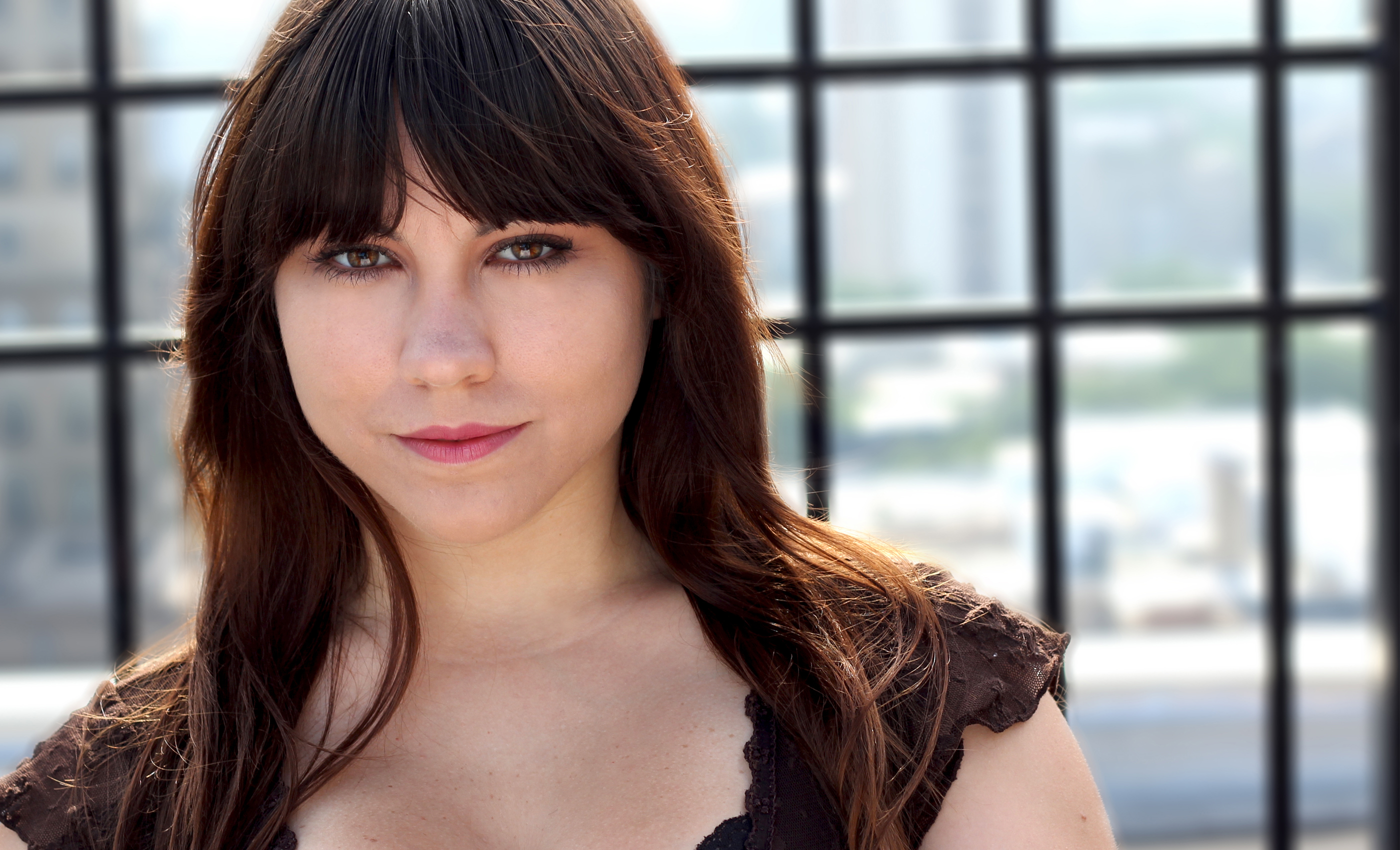 Michelle Shields, Headshot #1, 2011